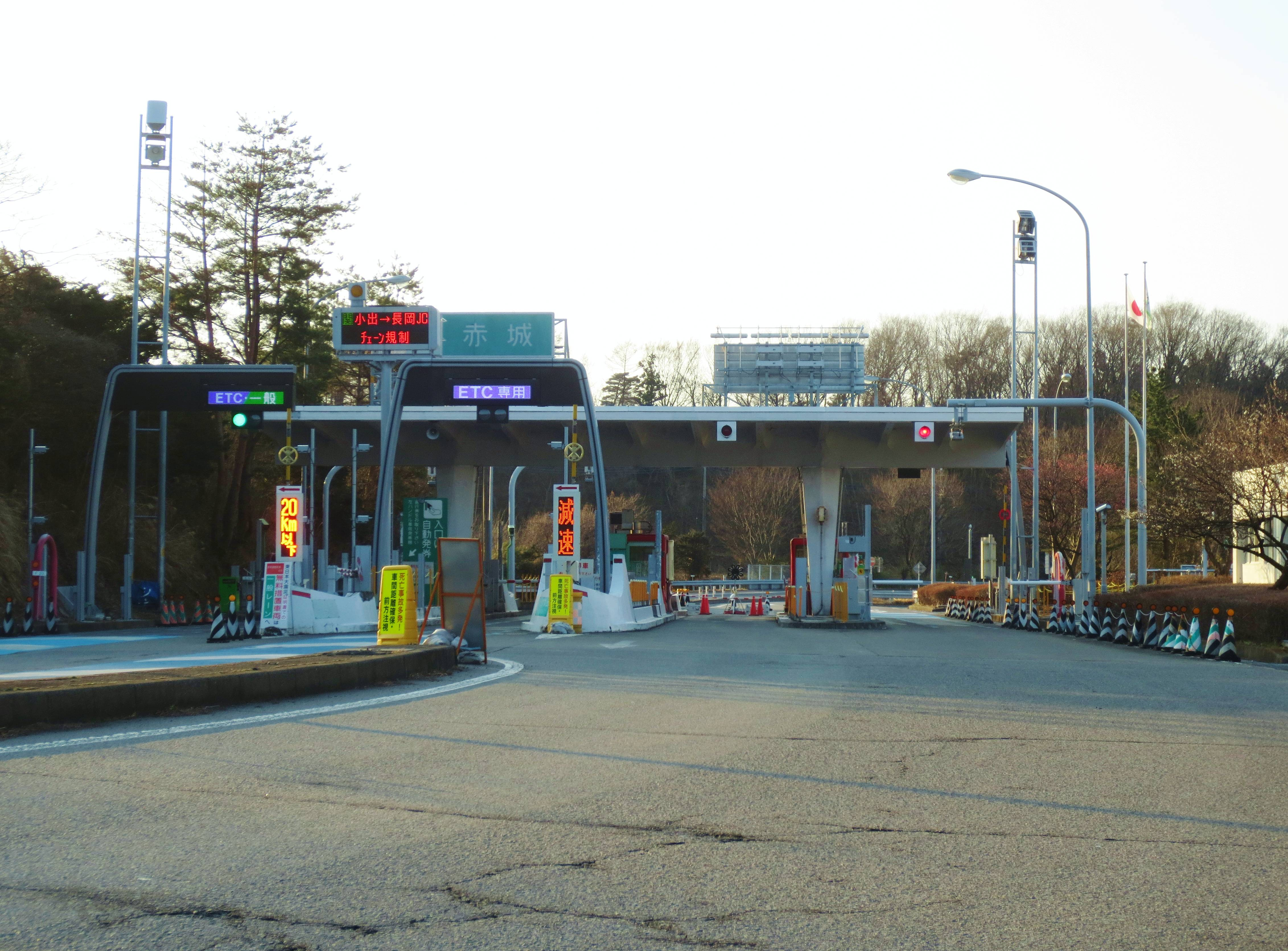 Akagi Interchange.